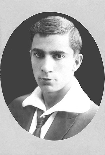 Afrasiyyab Badalbeyli, student of Azerbaijani State University. Later he became author of the first ballet in East and the first Azerbaijani ballet "Maiden tower" (1940)